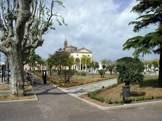 Church of San Leopoldo, Vada, Rosignano Marittimo (LI), Italy